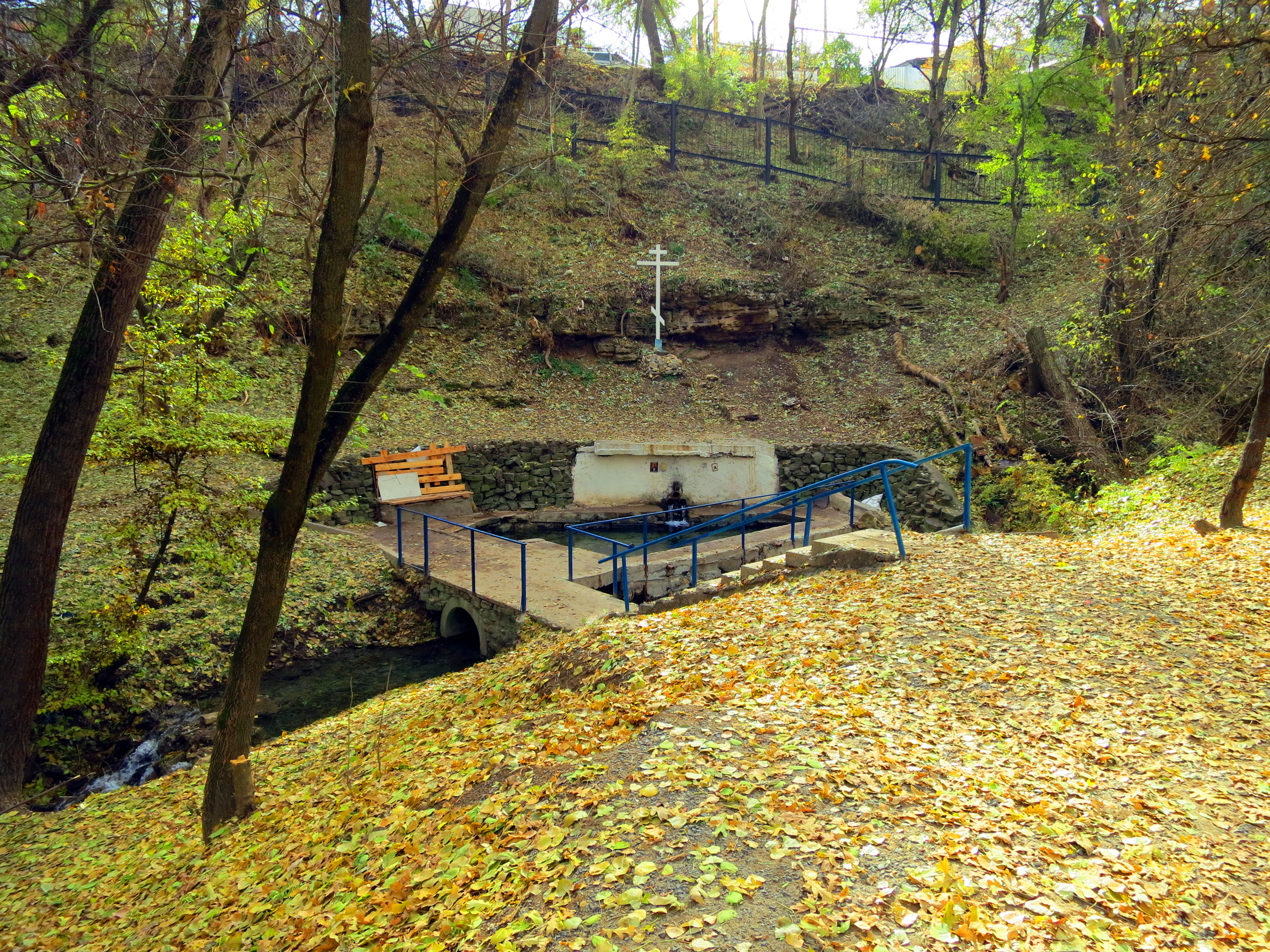 Spring at Botanical garden in Rostov-on-Don, Russia. This image is related to the protected area of Russia number 6110114